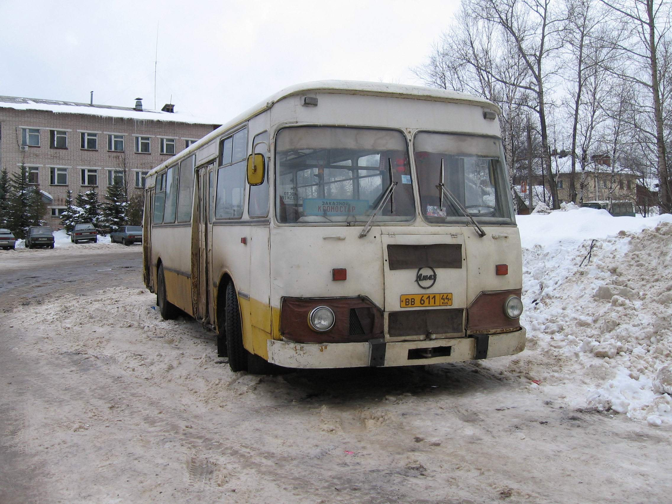 Liaz-677, Лиаз-677